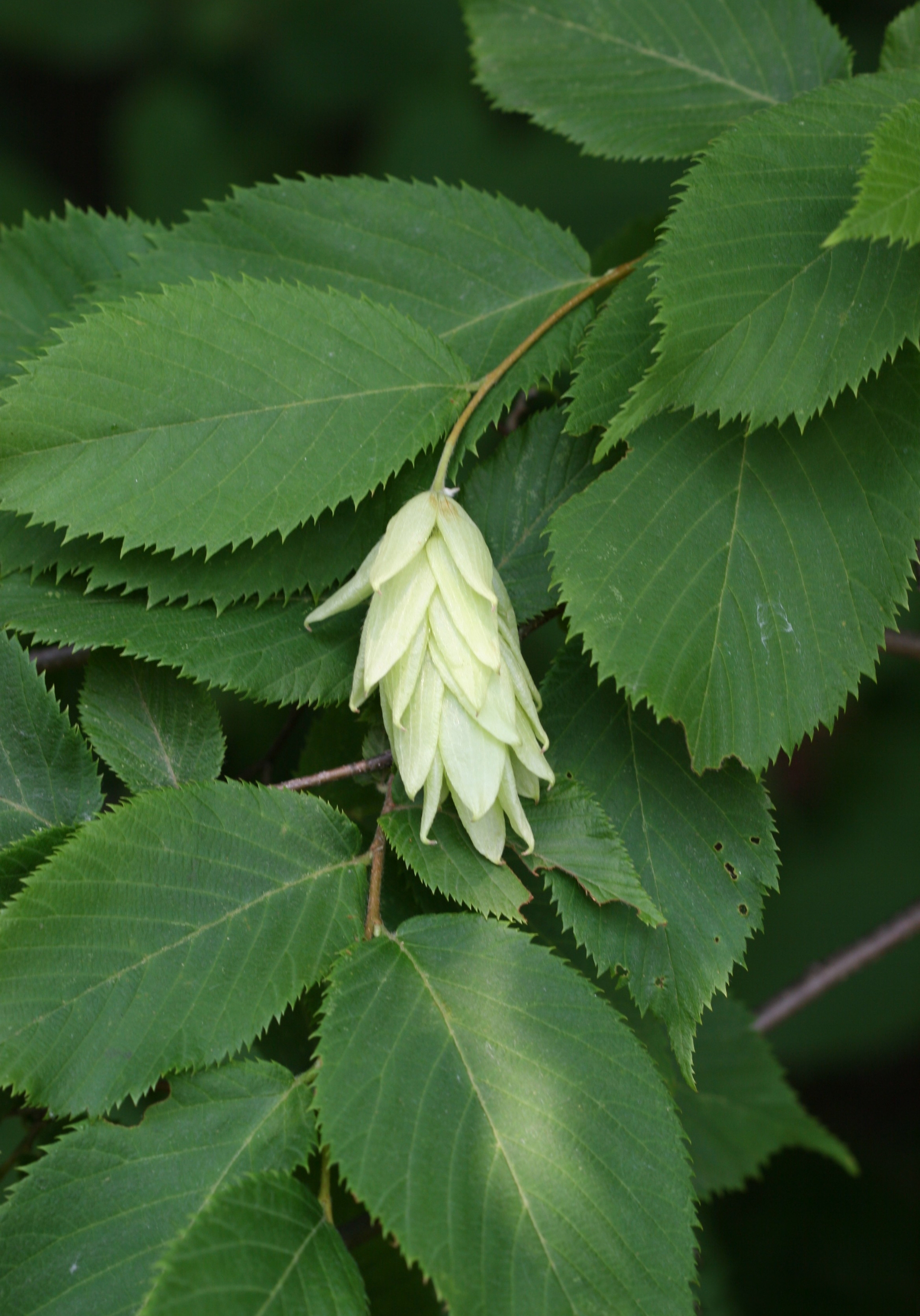 Ostrya virginiana foliage and fruit. University of Minnesota Arboretum, Minnesota, USA.